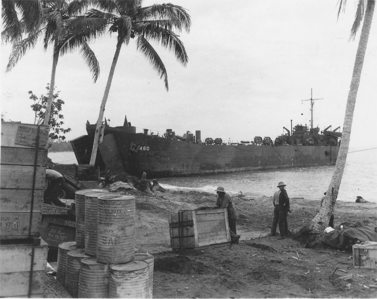 USS LST-460 beached at Guadalcanal, 23 July 1943. US Navy photo.